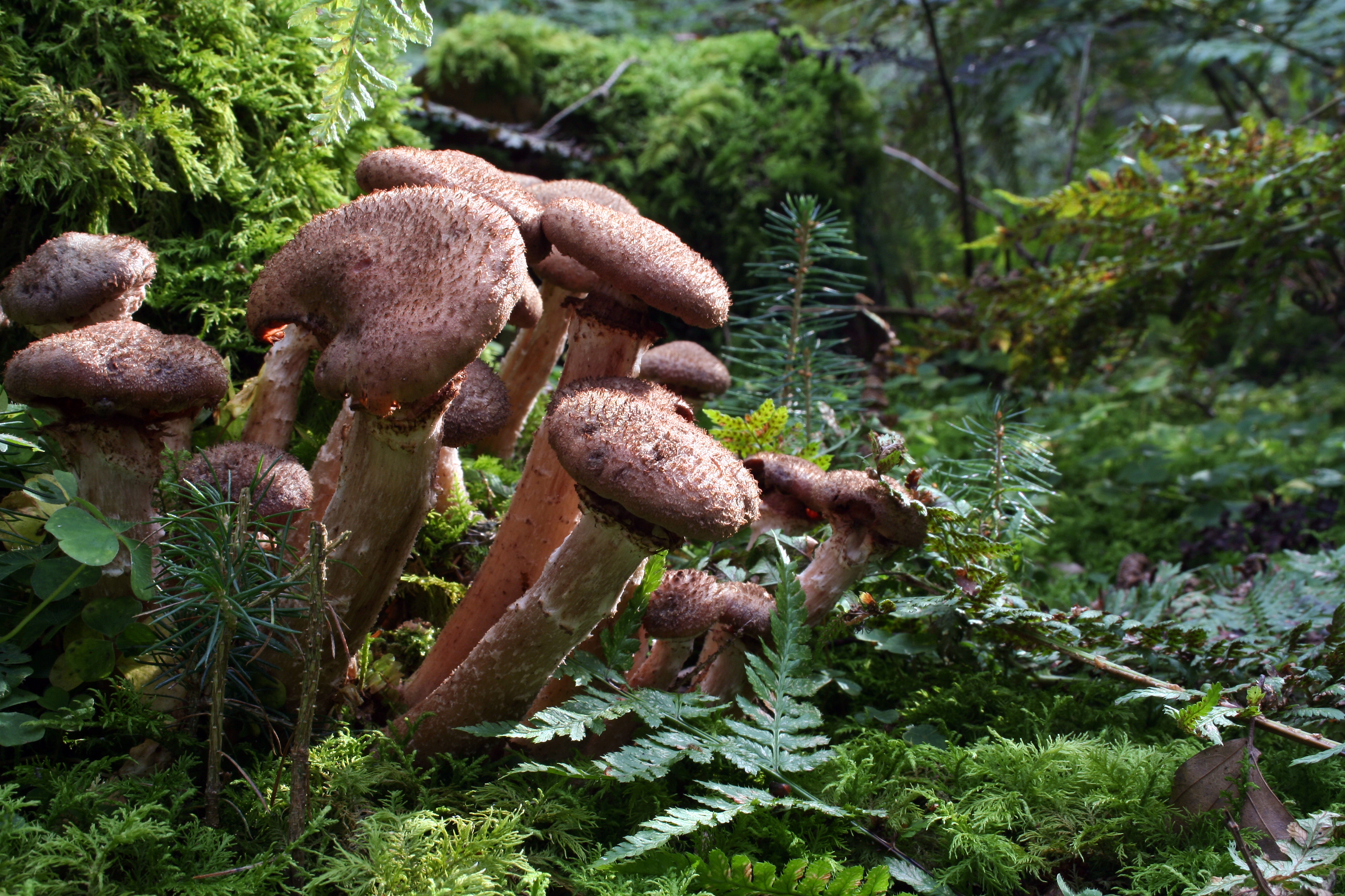 Armillaria ostoyae, family Marasmiaceae. Location: the urban district Eggingen in the city of Ulm, Southern Germany.